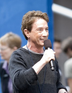 Martin Short hosts Broadway on Broadway, September 10th 2006